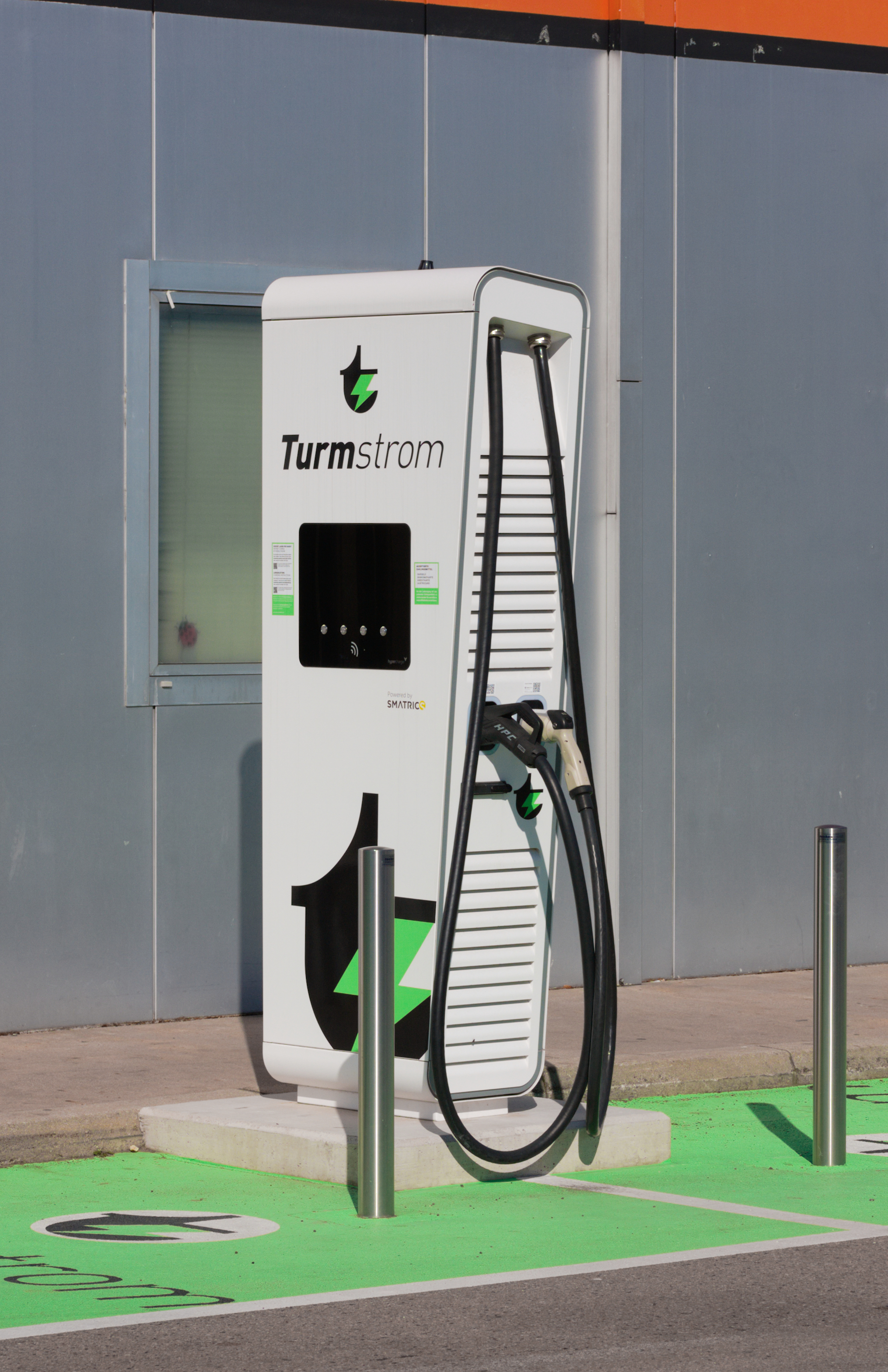 A charging station by Turmstrom at Brunnerstraße B12 A, Brunn am Gebirge, Lower Austria, Austria